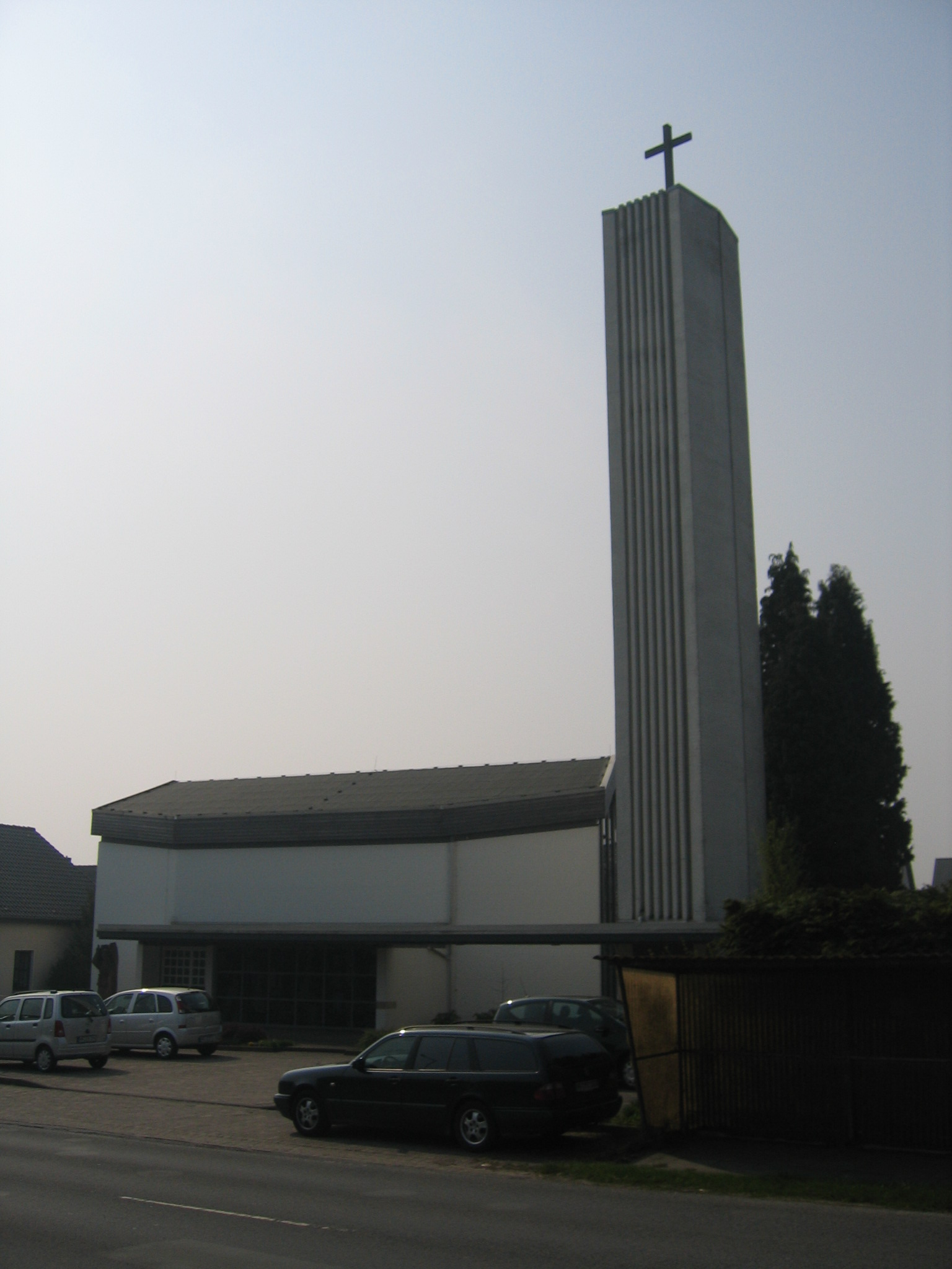 Catholic church St. Michael in Bünde-Holsen, District of Herford, North Rhine-Westphalia, Germany.